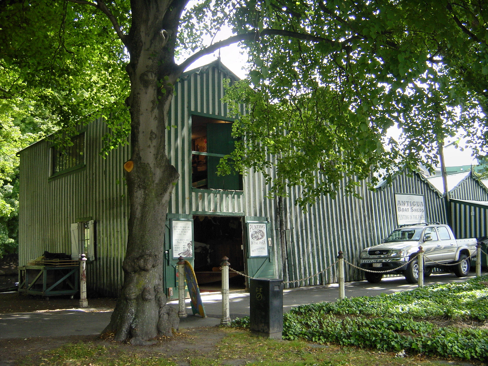 The side of the boat sheds facing away from the Avon River.